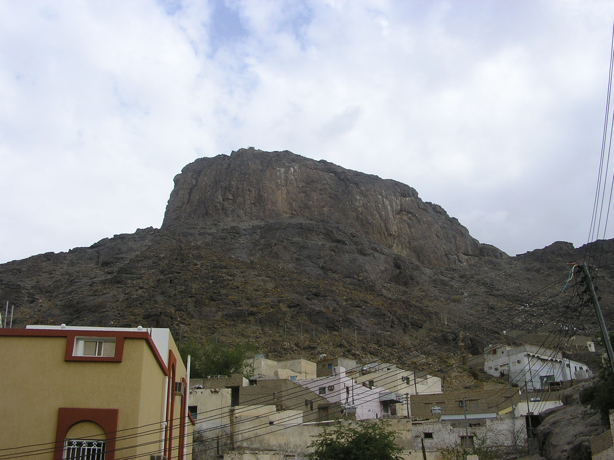 Jabal al-Nour near Mecca, Sadui Arabia. This photo was taken by Adiput during his small pilgrimage to Mecca in 2006